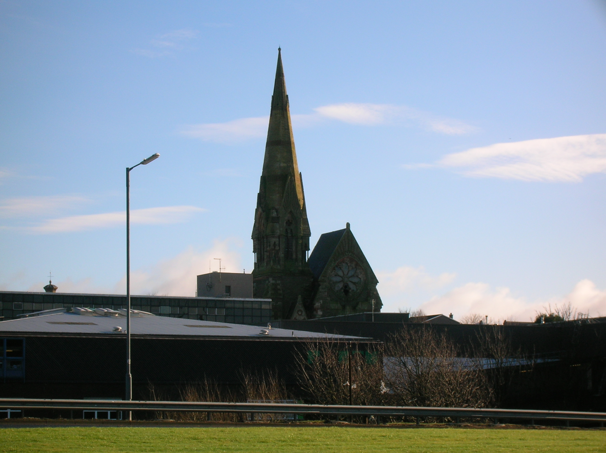 Trinity Church as designed by F. S. Pilkington. Irvine, North Ayrshire, Scotland. A church famous for its unusual architecture.